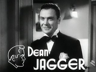 Cropped screenshot of Dean Jagger in the trailer for the film Dangerous Number